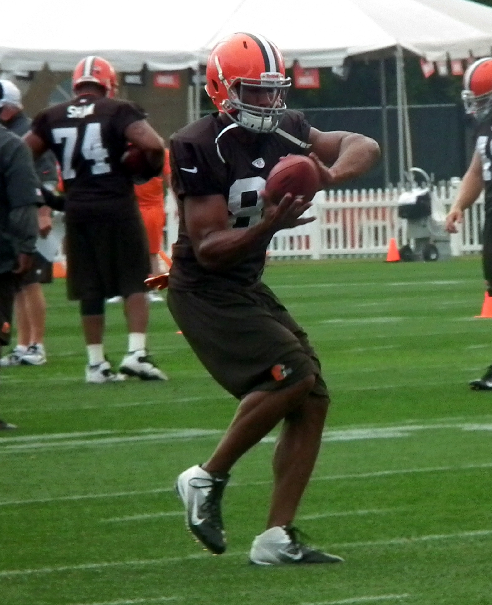 Alex Smith, tight end for the Cleveland Browns